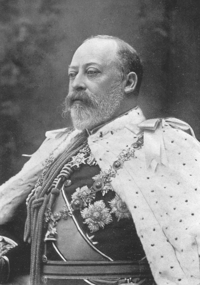 King Edward VII of the United Kingdom (1841-1910) in 1902.